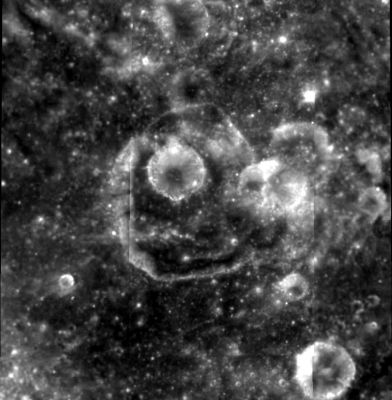 Clementine space probe image of Griggs crater